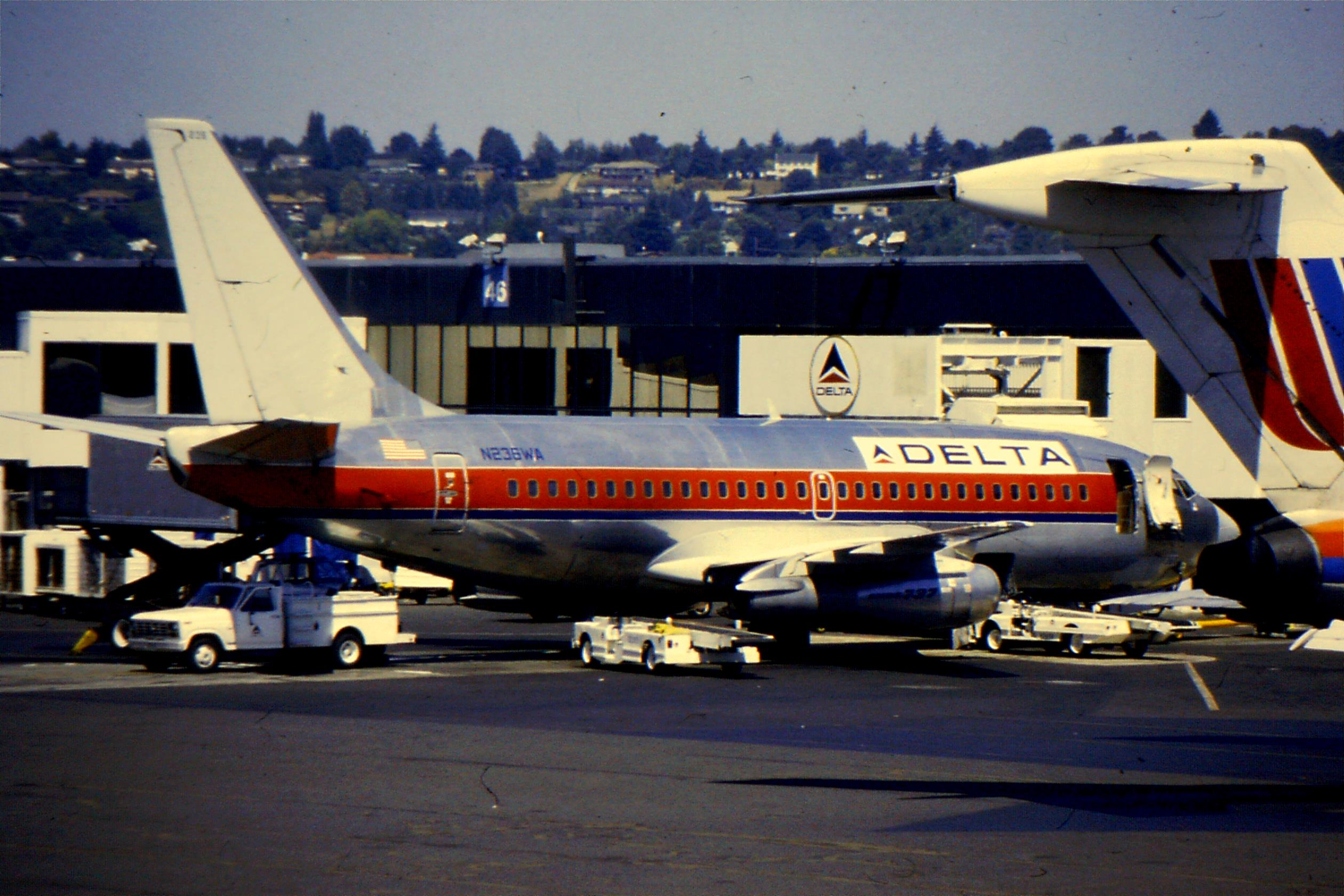 Wearing a hybrid Western/Delta scheme during the takeover of Western by DL. A messy scheme but one worth capturing during the final days of the WA brand.